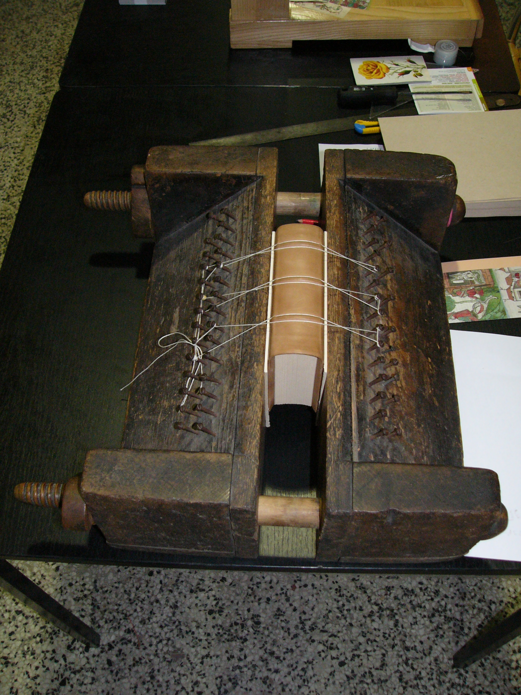 fine bookbinding: making of raised bands on the spine